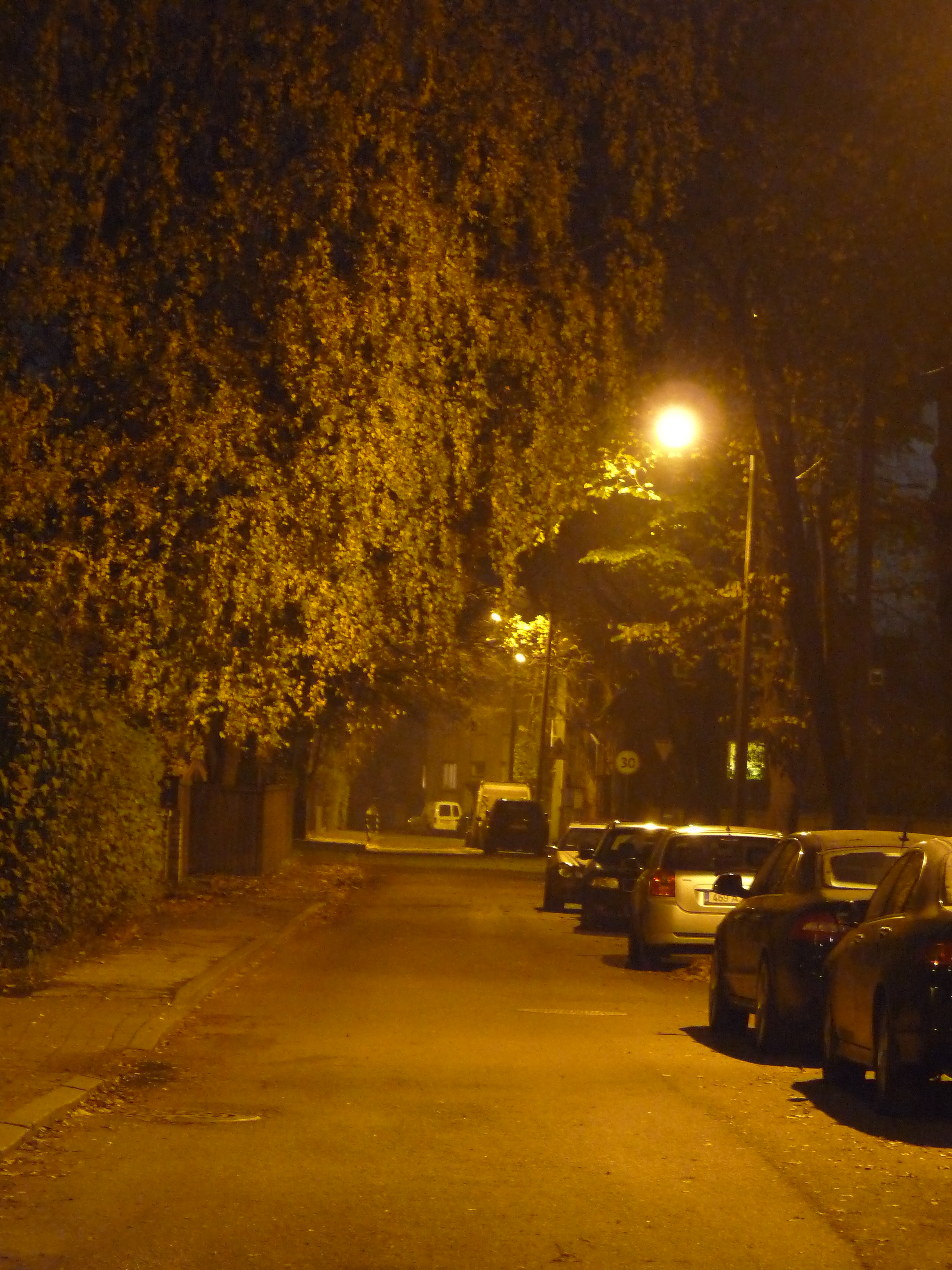 Kullerkupu street in Tallinn, Estonia.